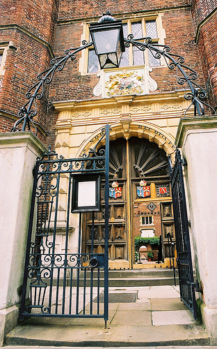 Abbot's Hospital, Guildford